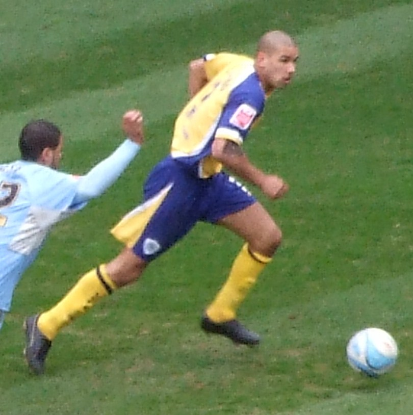 Patrick Kisnorbo. Image cropped from original at Flickr.